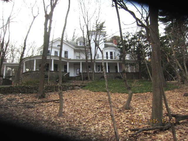 Brookside